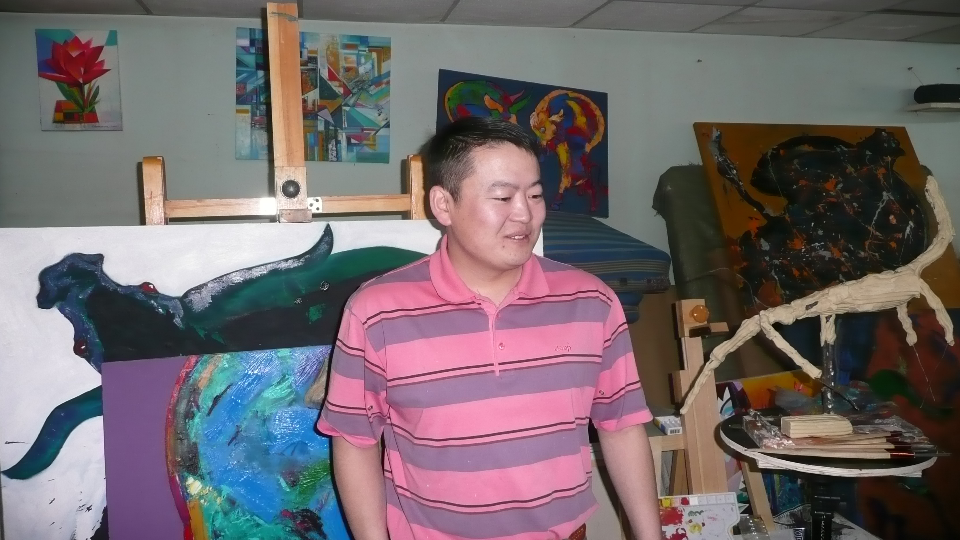 A visit to the Mongolian painter CHADRAABAL Adiyabazar in Ulan Bator